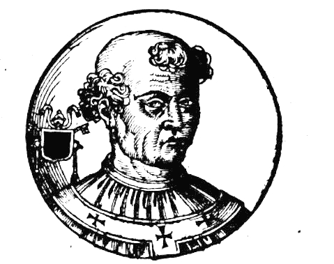 Formosus, drawn extracted by Bartolomeo Sacchi said Platina, Vite De' Pontefici, edited by di Onofrio Panvinio, per i tipografi Turrini, e Brigonci, Venice 1663